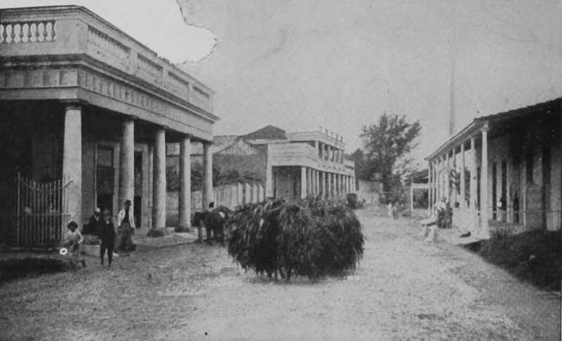 Marianao, Havana, Cuba